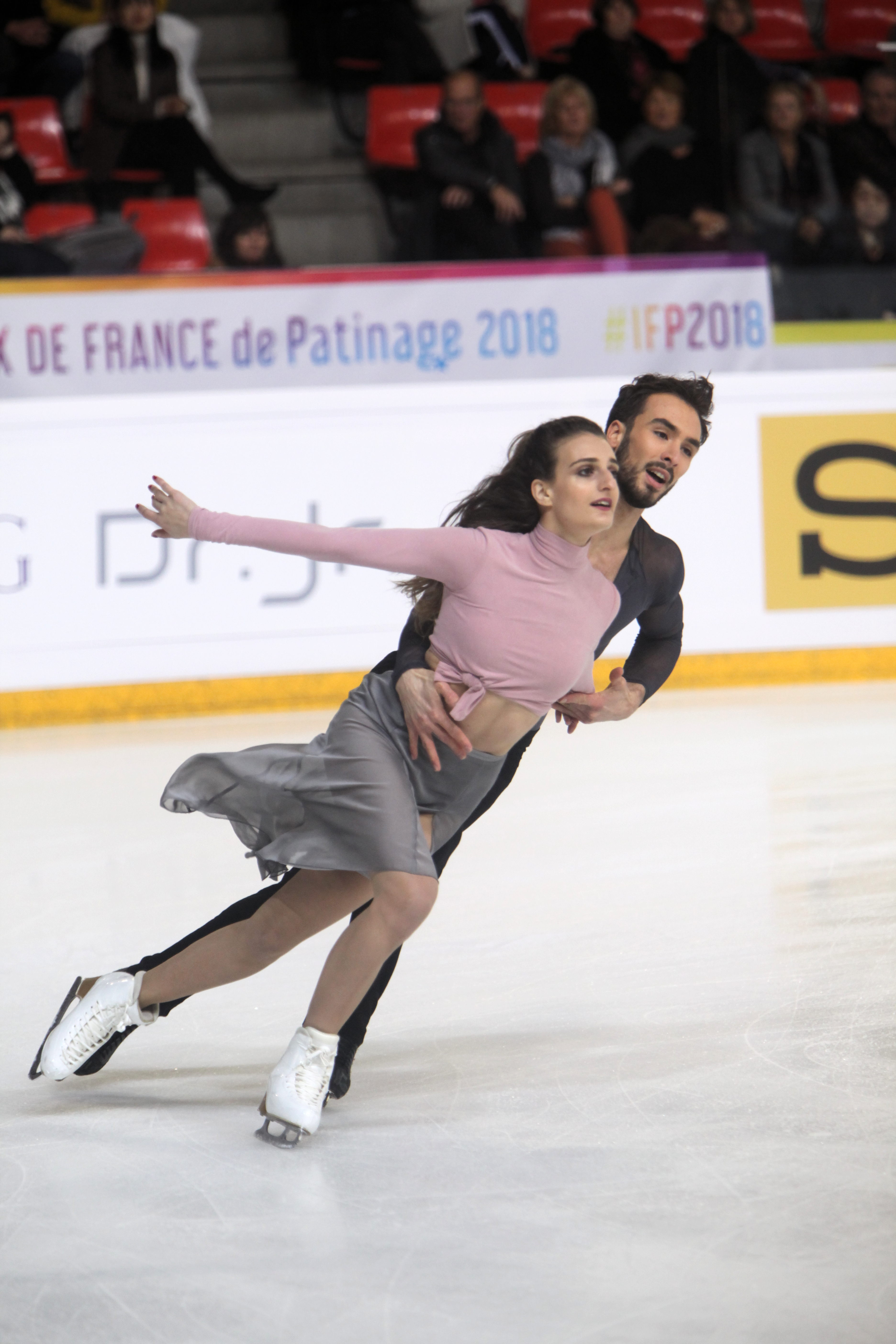 Gabriella Papadakis and Guillaume Cizeron at the Ice Dance session of the Internationaux de France de Patinage 2018.